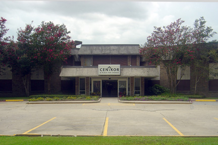 Cenikor facility in Baton Rouge.